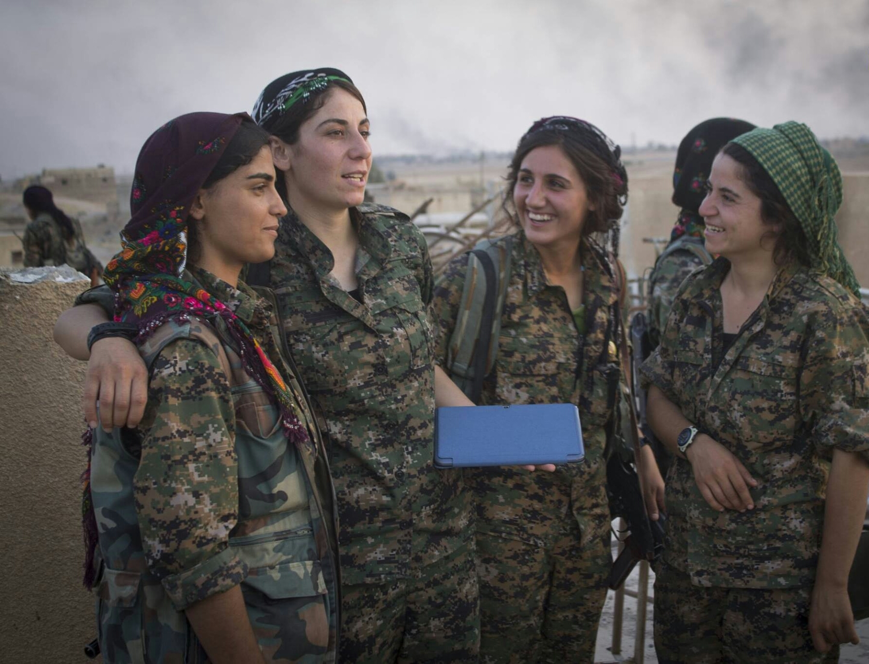 YPJ fighters